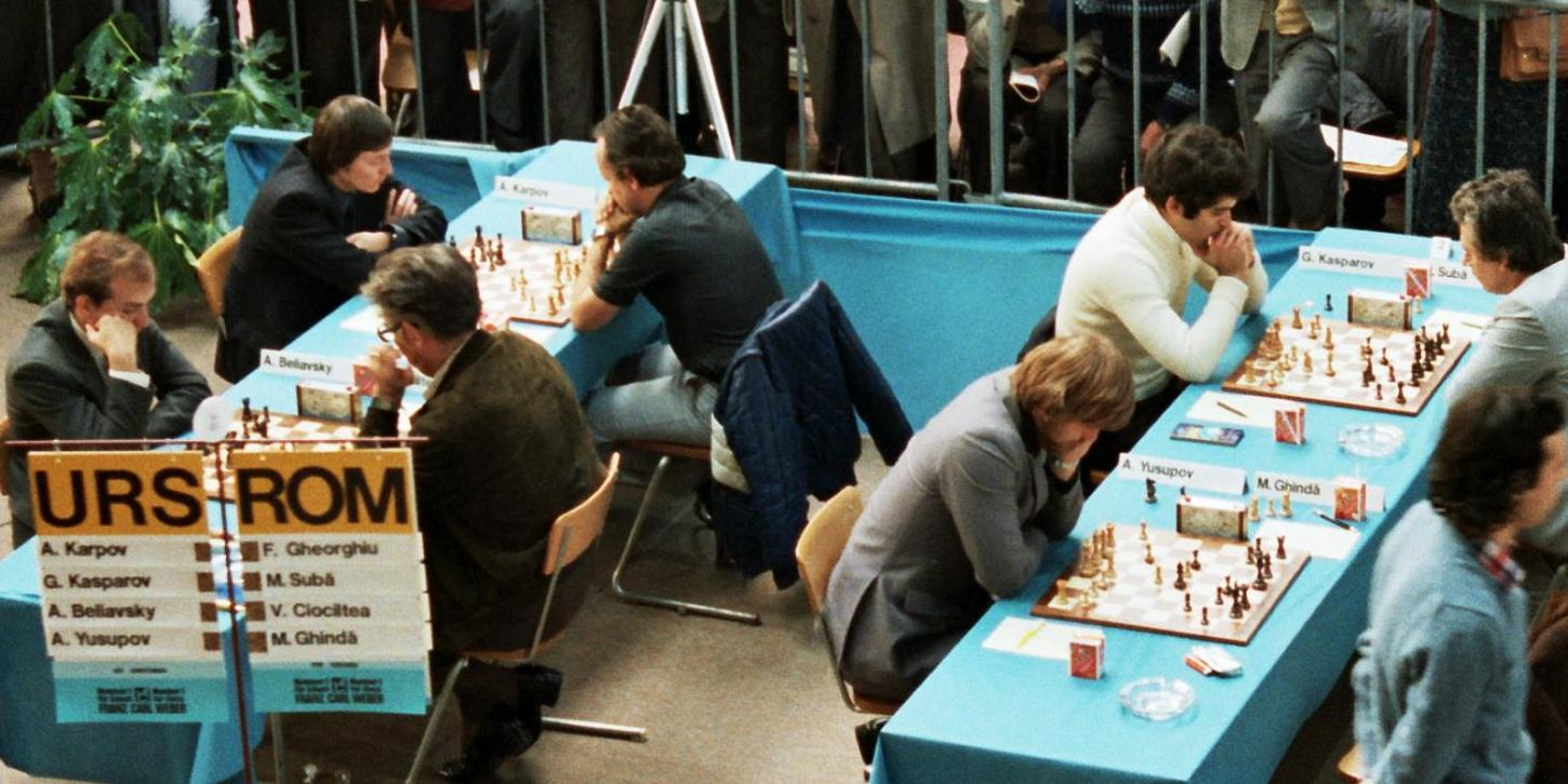 Soviet Union - Romania, Chess Olympiad 1982 in Luzern, Photographer Gerhard Hund.